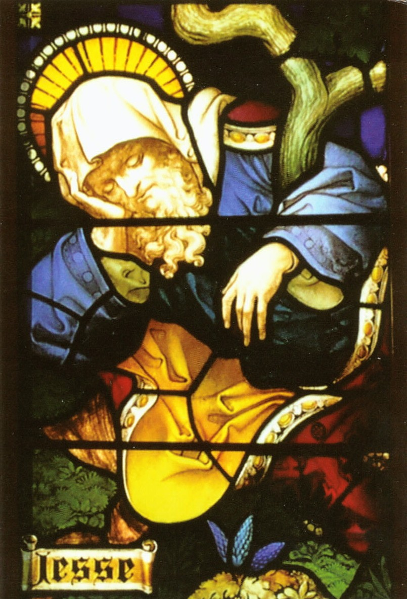 Detail of a stained glass window in All Saints Church, Hove, Sussex, England, representing the Tree of Jesse